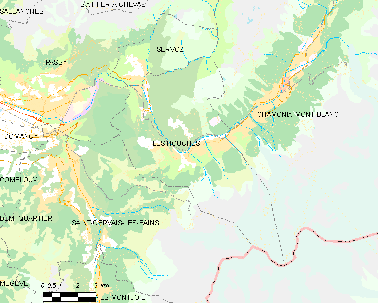 Map of French municipality Les Houches